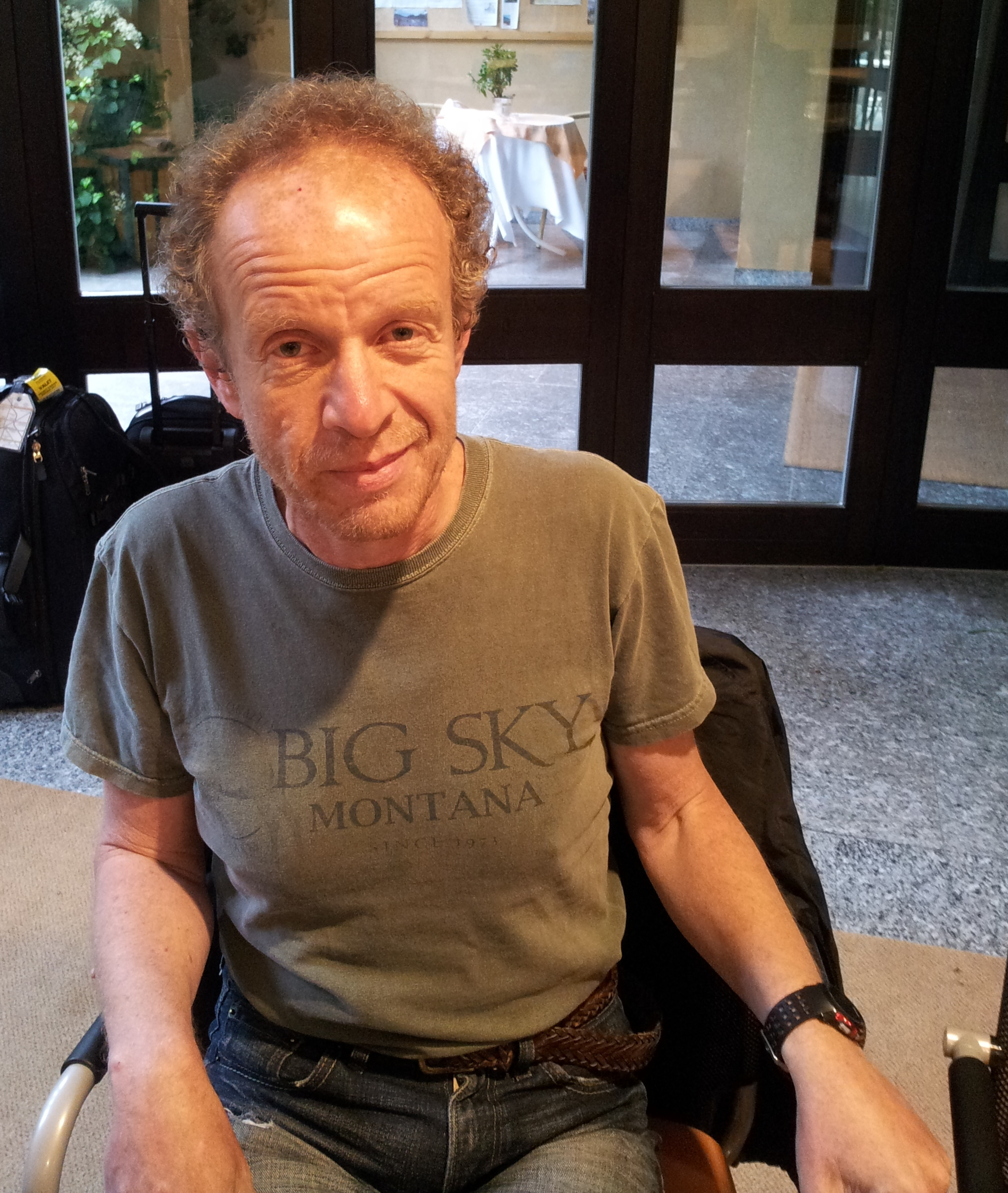 Eugene Koonin in May 2013